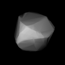 3D convex shape model of 986 Amelia, computed using light curve inversion techniques. J. Hanuš, J. Ďurech, M. Brož, B. D. Warner (June 2011). "A study of asteroid pole-latitude distribution based on an extended set of shape models derived by the lightcurve inversion method". Astronomy and Astrophysics 530: A134. ISSN 0004-6361. arXiv